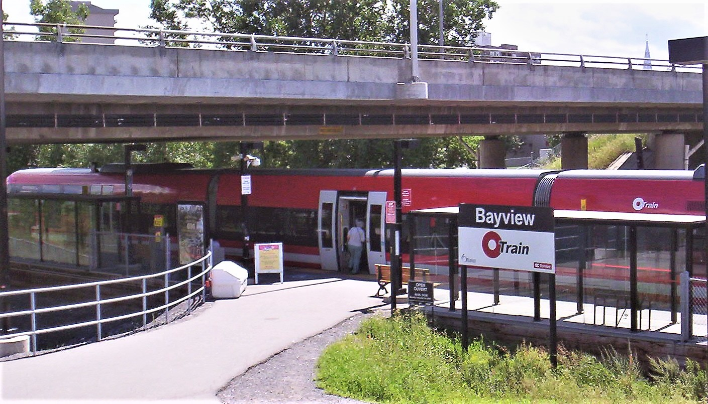 Bayview Station O-Train platform, Ottawa, Ontario, Canada. Personal photo by user:Radagast. The Wellington Street Bridge is shown.